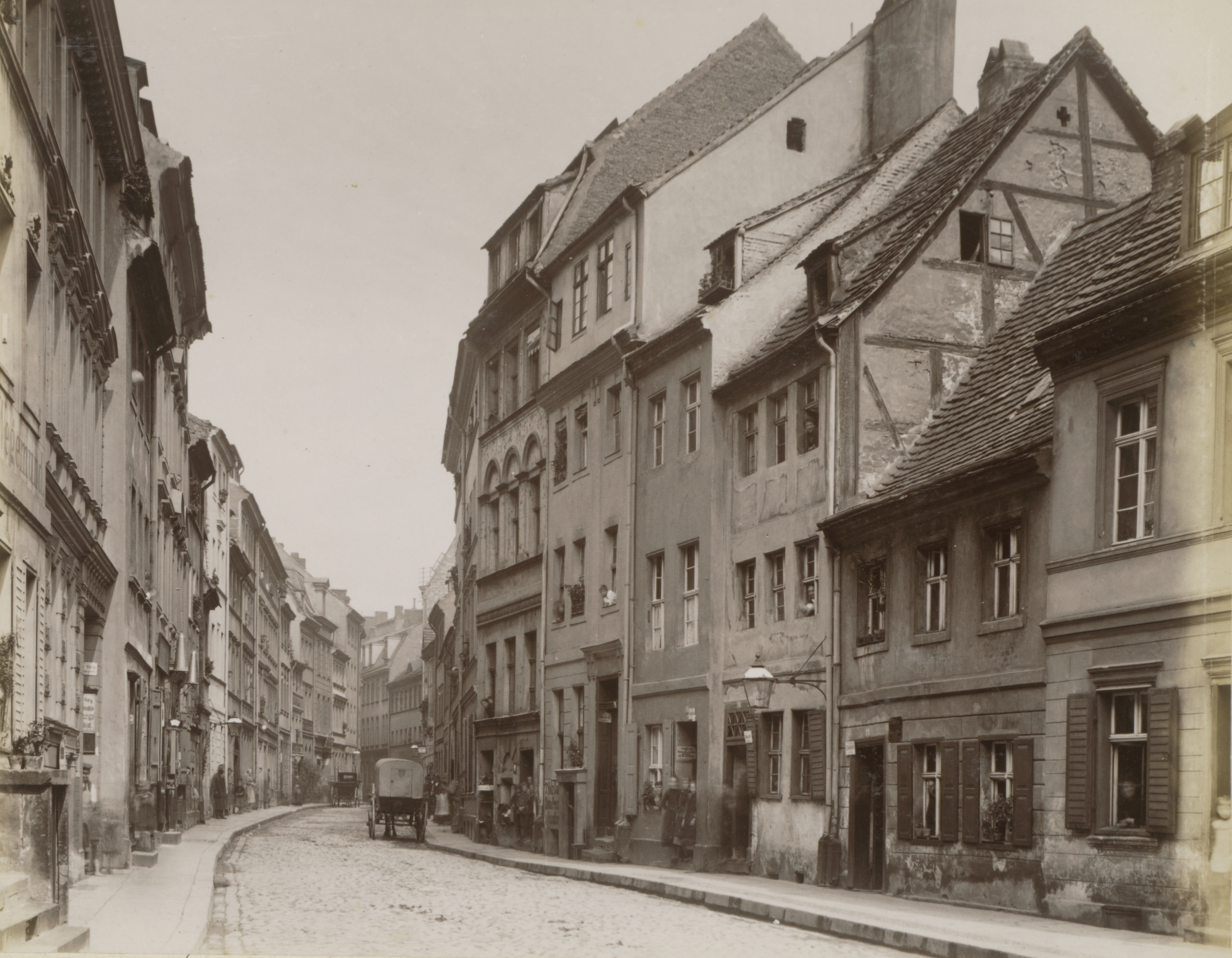 Petristraße looking south, in Berlin's Cölln district. The area belongs to Fisher Island.